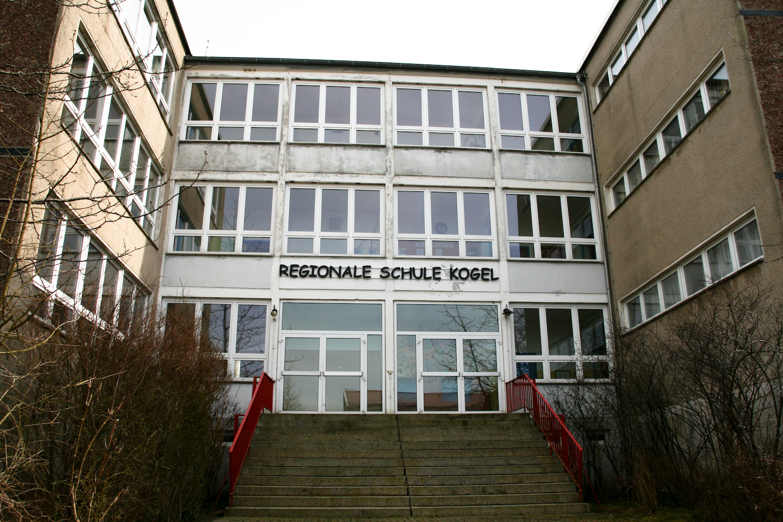 Photo of Regionale Schule Kogel (main building)